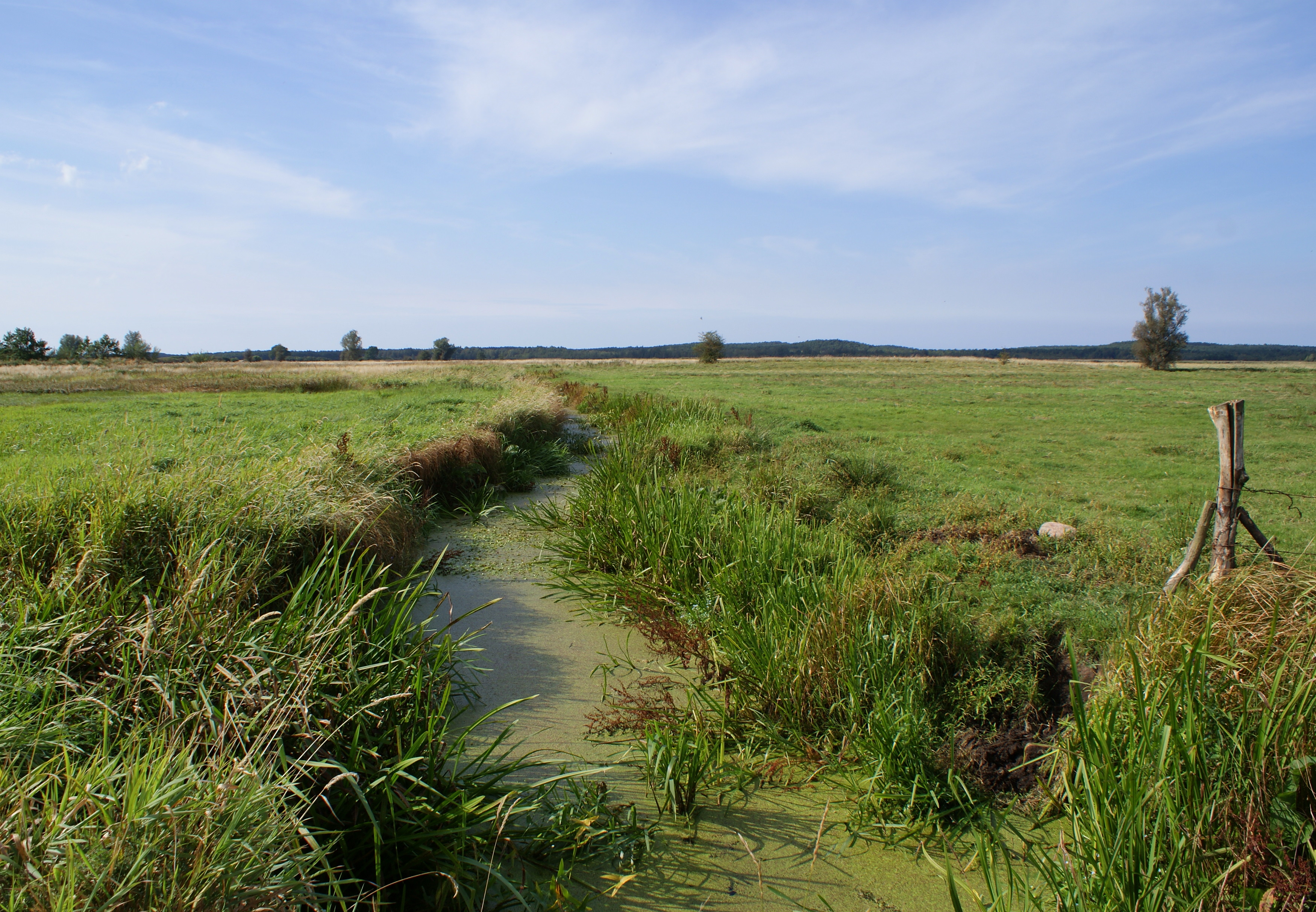 Mrzeżyno II Canal at the north of Włodarka village, Poland